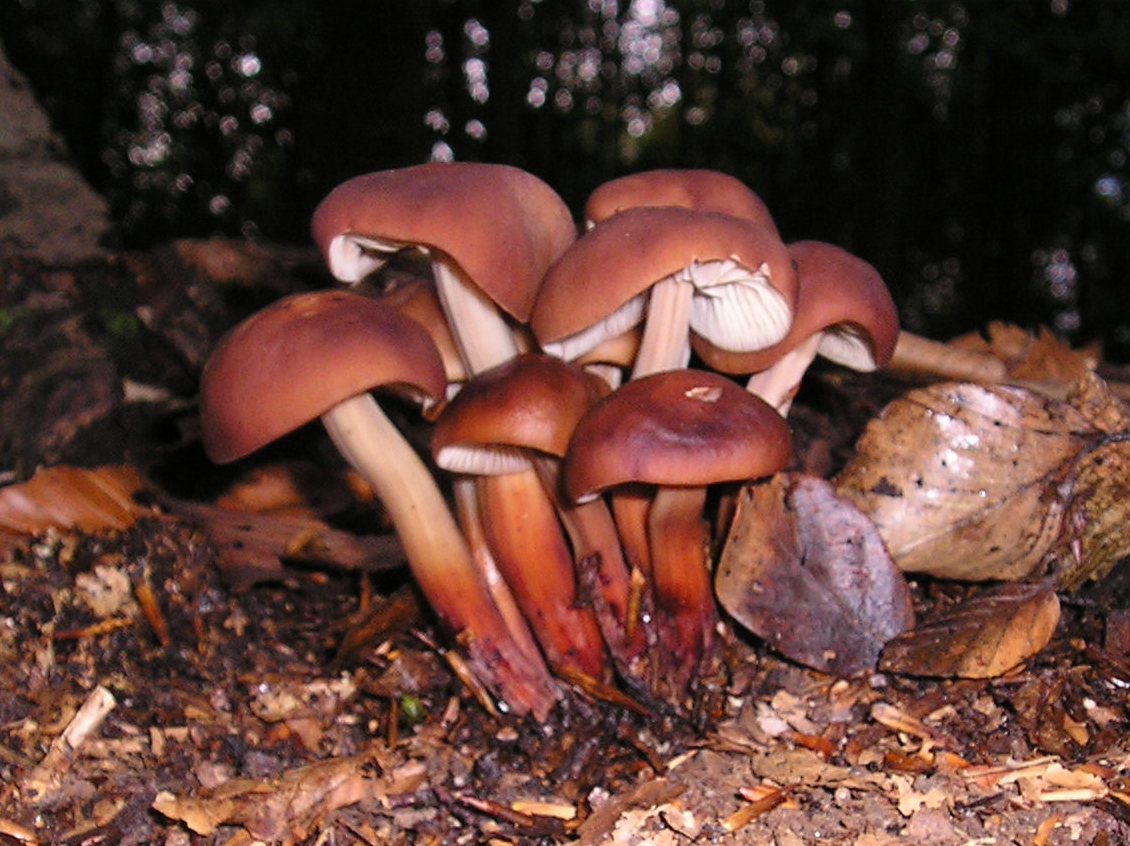 Photo taken in a French wood